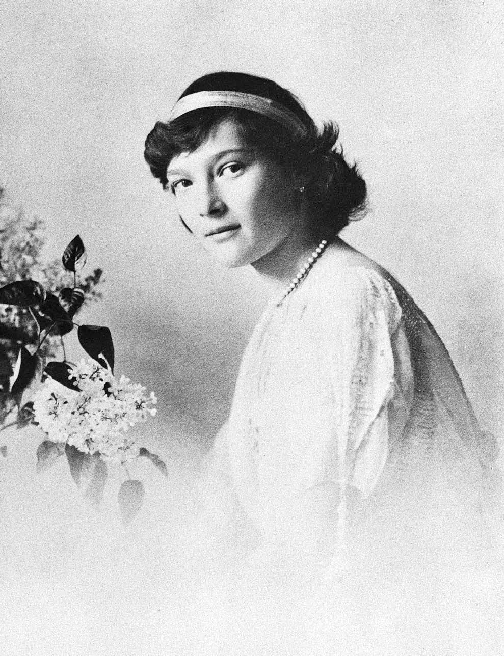 Grand Duchess Tatiana Nikolaevna